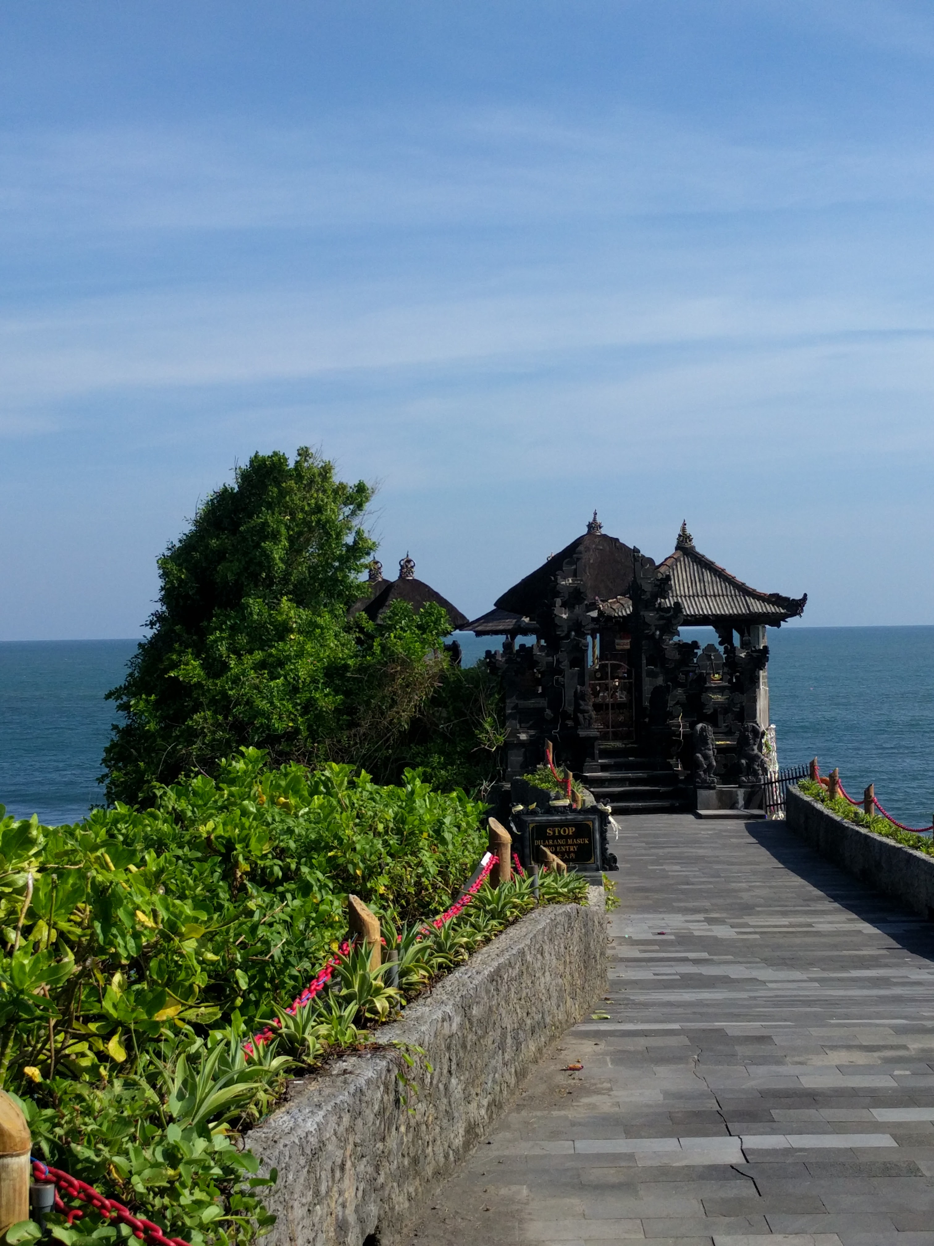 The entrance of the Batu Bolong temple